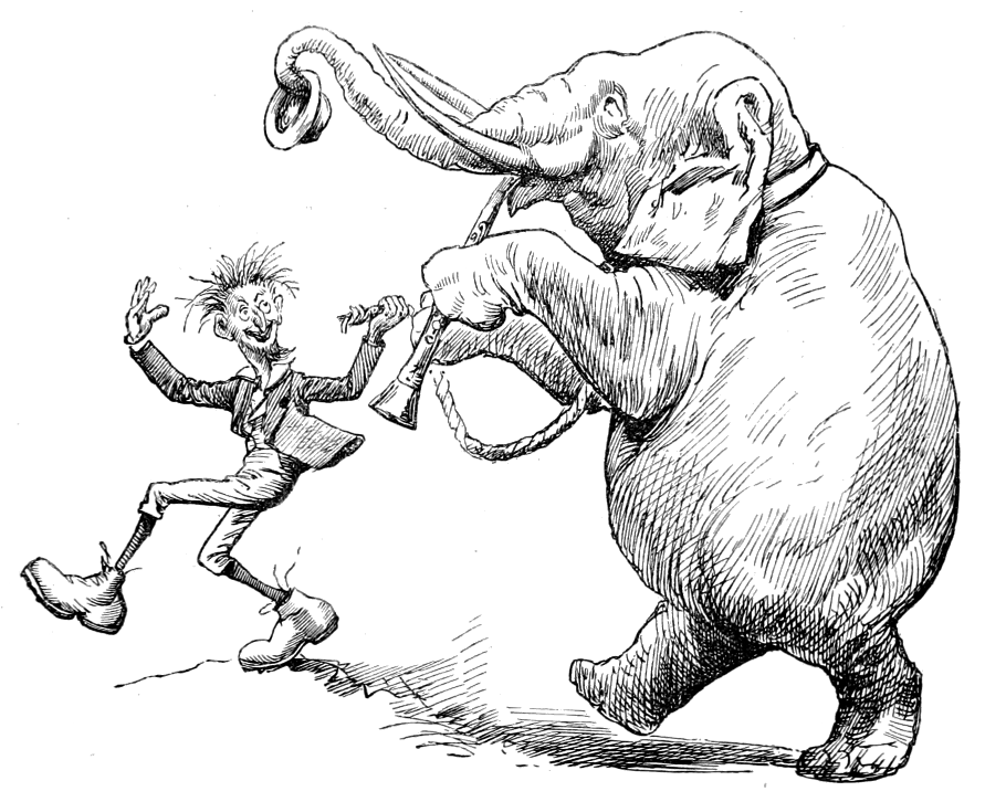 Illustration by Harry Furniss in Sylvie and Bruno Concluded